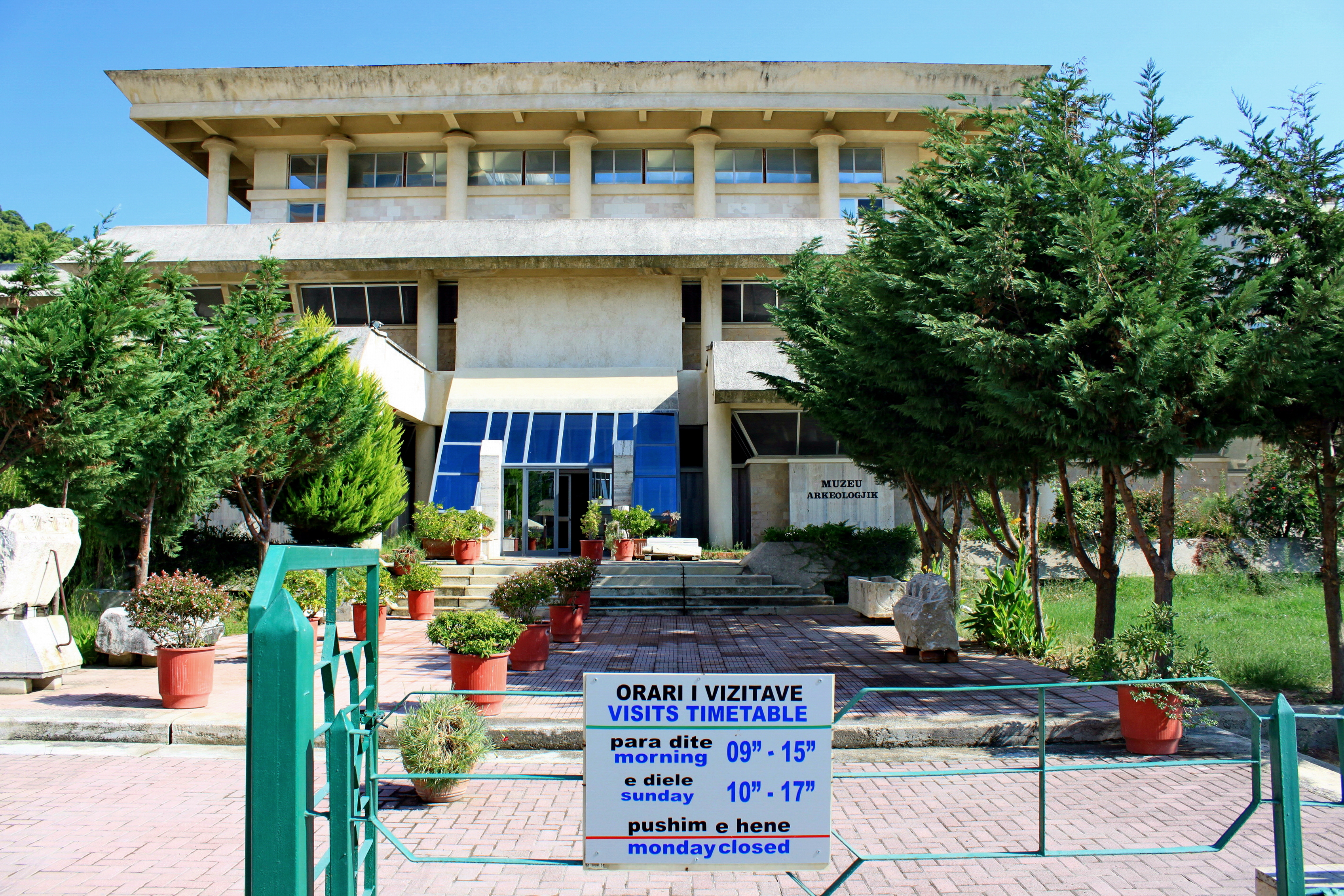 Durrës Archaeological MuseumShqip: Muzeu Arkeologjik Durrës